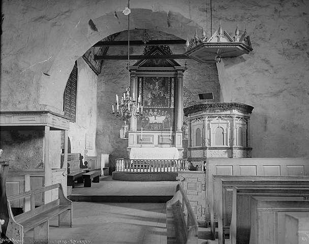 Interior of Kvinnherad Church. Altarpiece from 1705 by Hans Sager.